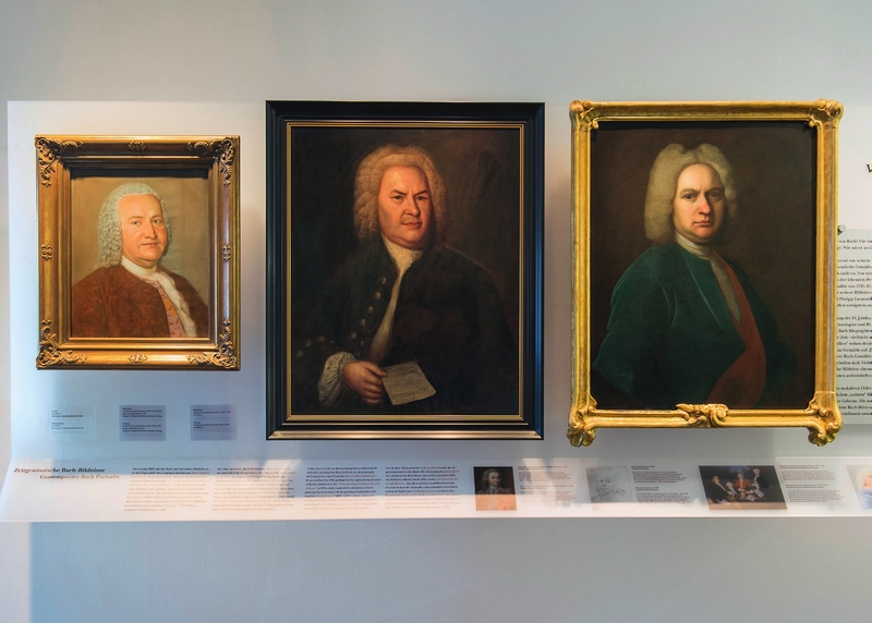 Paintings of Johann Sebastian Bach on display in the Bach House, Eisenach, 2014: - Pastel painting from the collection of Manfred Gorke, ca. 1735 (?) - Oil painting by Elias Gottlob Haussmann, 1746 (copy, 1910) - Oil painting by Johann Jacob Ihle, ca. 1720 (?)